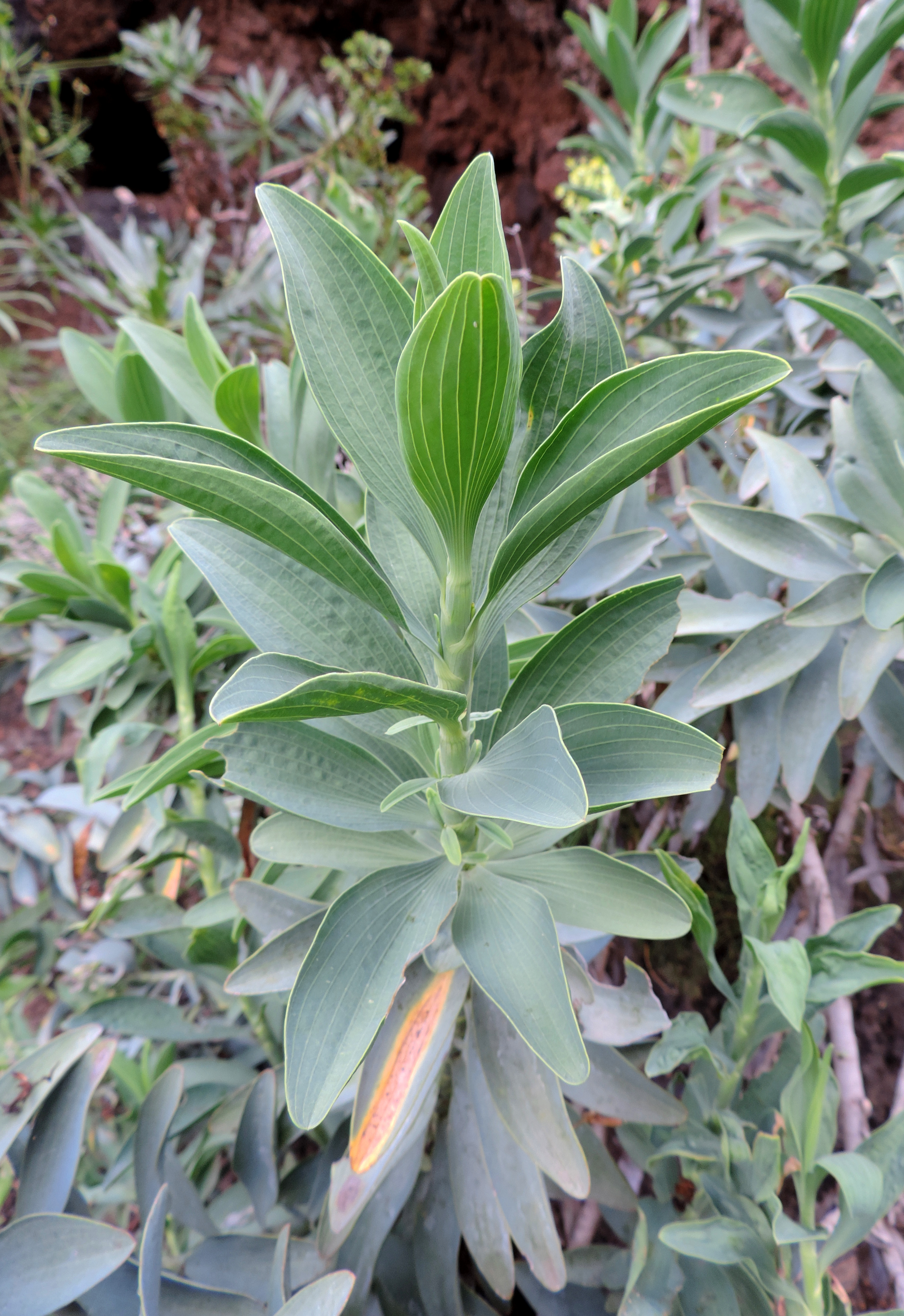 Bupleurum handiense in Jardín Botánico Canario Viera y Clavijo